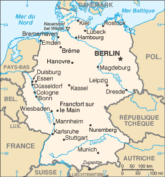 French map of Germany